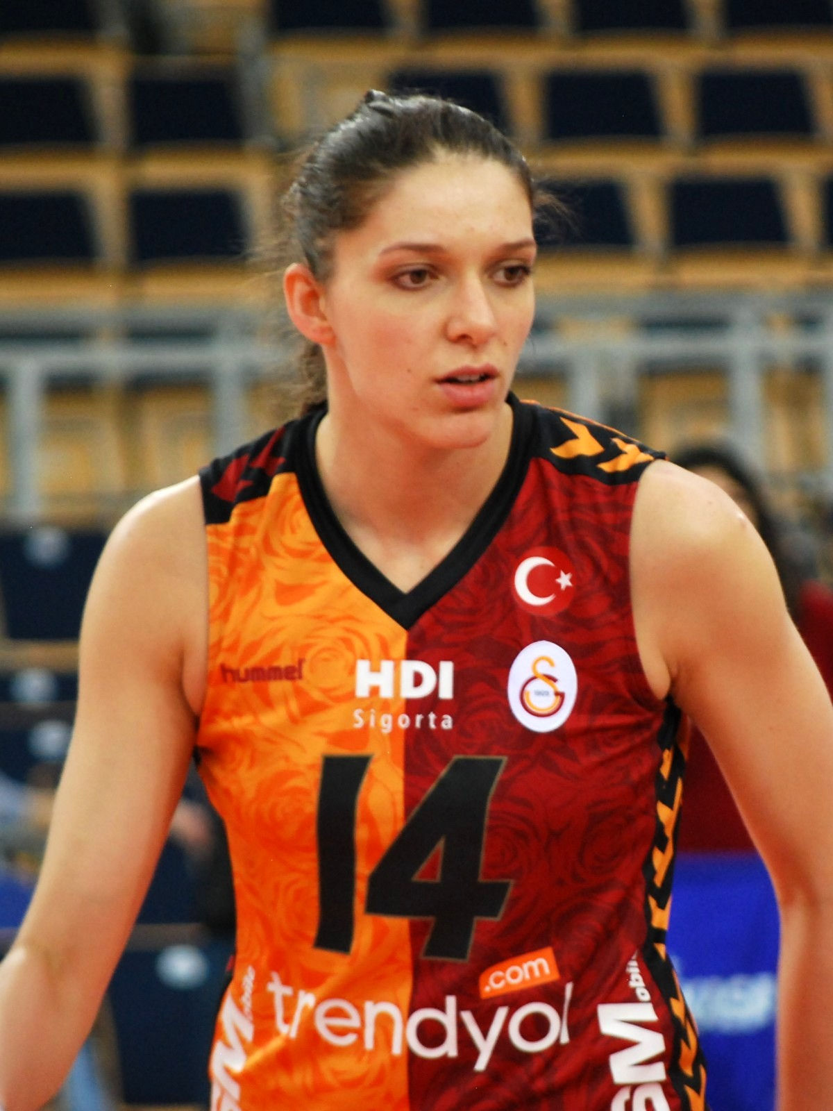 Hristina Ruseva, volleyball player from Bulgaria